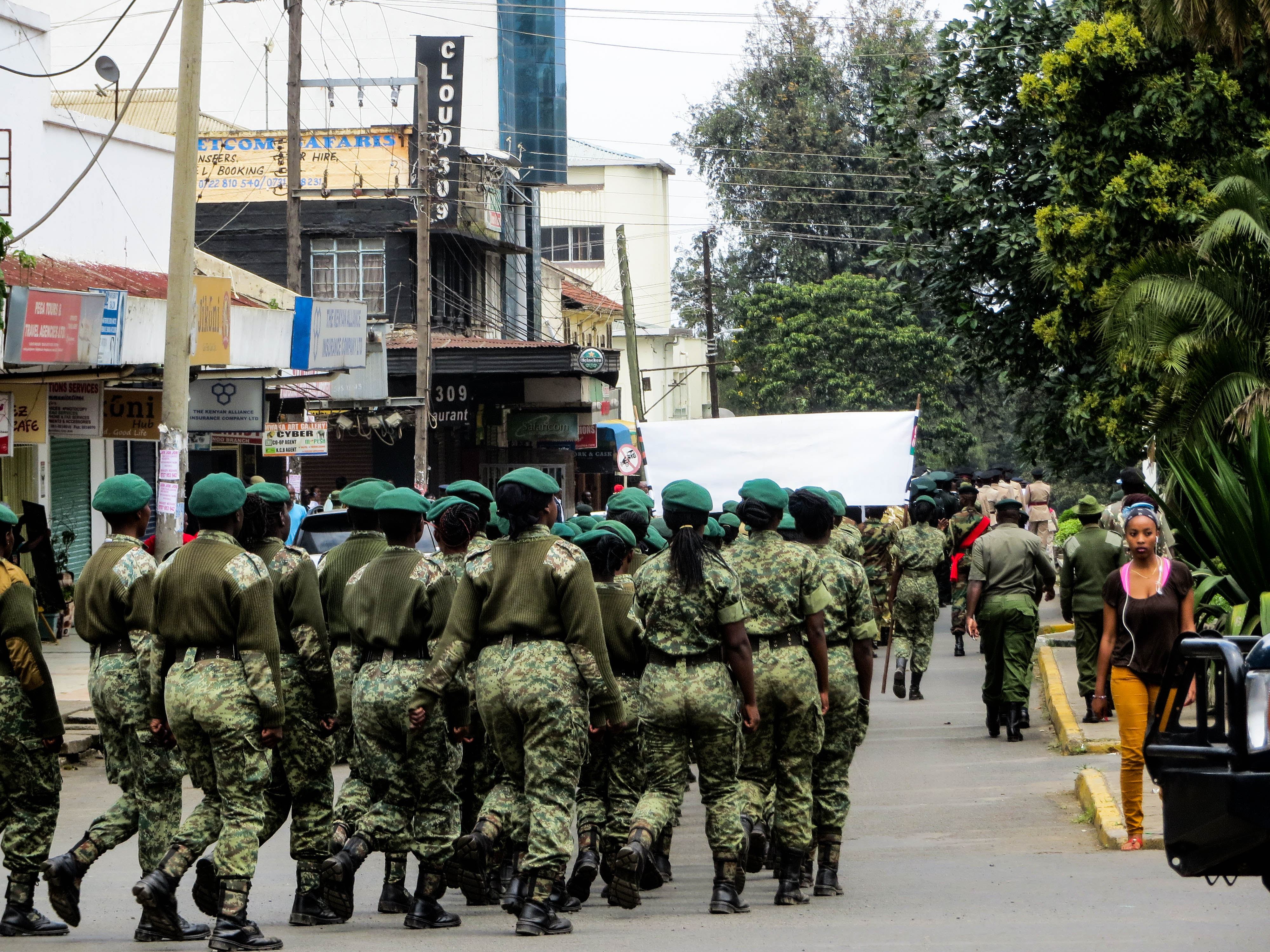 Kenya National Youth Service marching on street in Nakuru CBD This is an image with the theme "Africa on the Move or Transport" from: Kenya